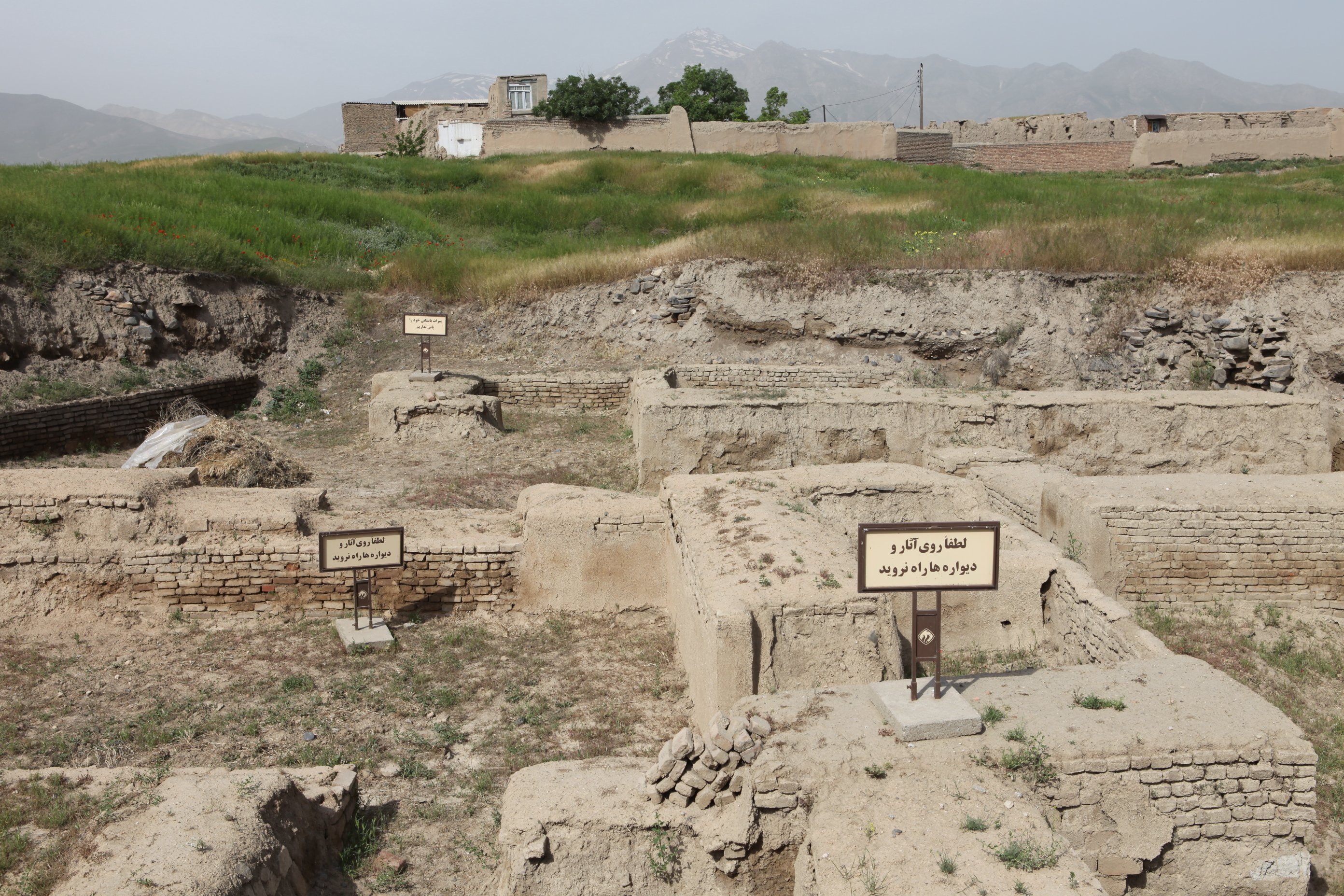 Excavations in Hamedann. Hamedan, ancient Ecbatana, is one of the oldest cities in the world, and according to legend (Ferdowsi), Hamedan was founded in 673 BC by the mythical King Jamshid.